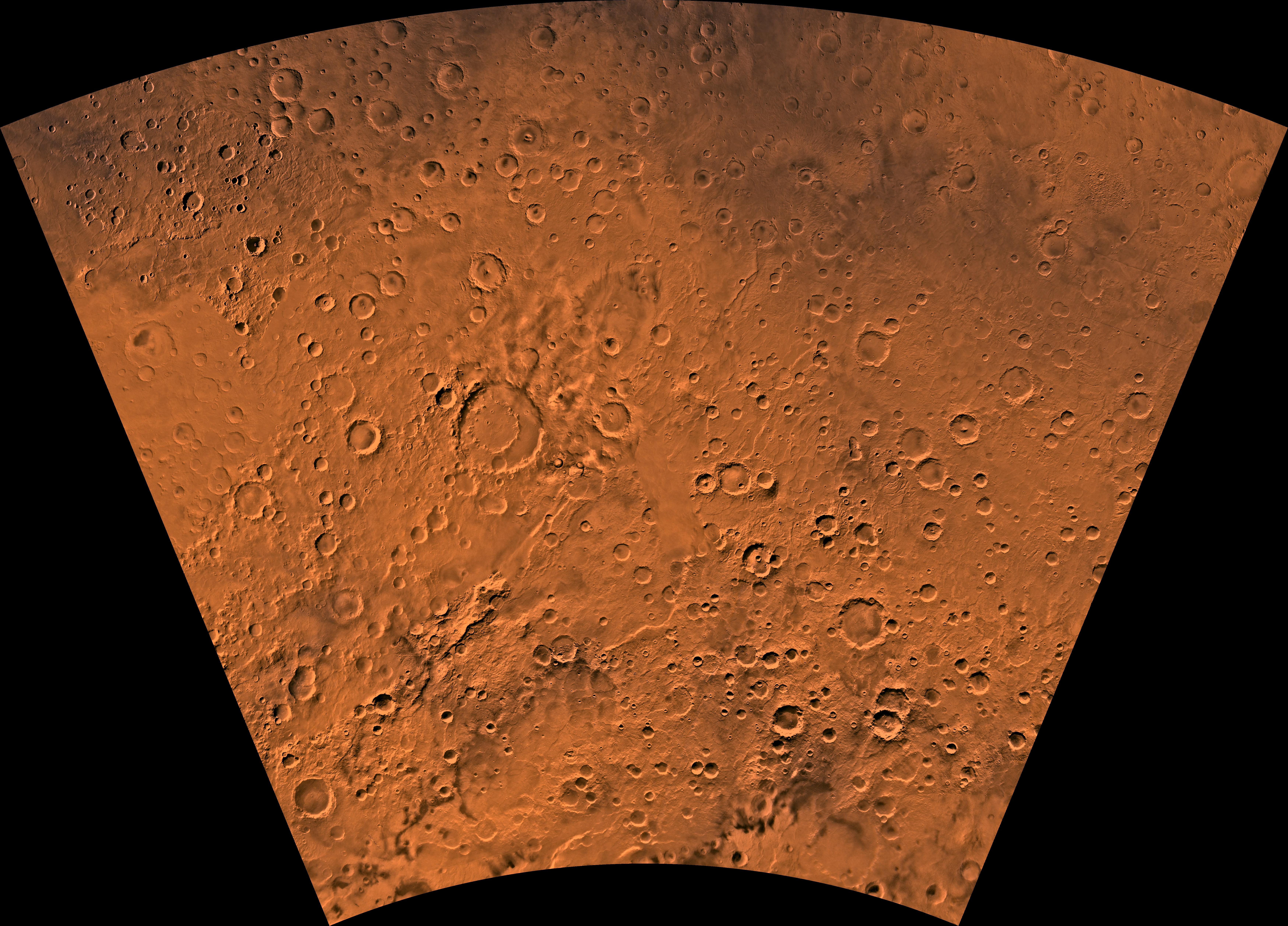 PIA00189: MC-29 Eridania Region Mars digital-image mosaic merged with color of the MC-29 quadrangle, Eridania region of Mars. The quadrangle is dominated by heavily cratered highlands, with some moderately cratered plains in the central part and large ridge systems in the southern part. The west-central part is marked by a large impact crater, Kepler. Kepler is an ancient remnant of the many large impact events that occurred during the period of heavy bombardment. Latitude range -65 to 30 degrees, longitude range -180 to -120 degrees